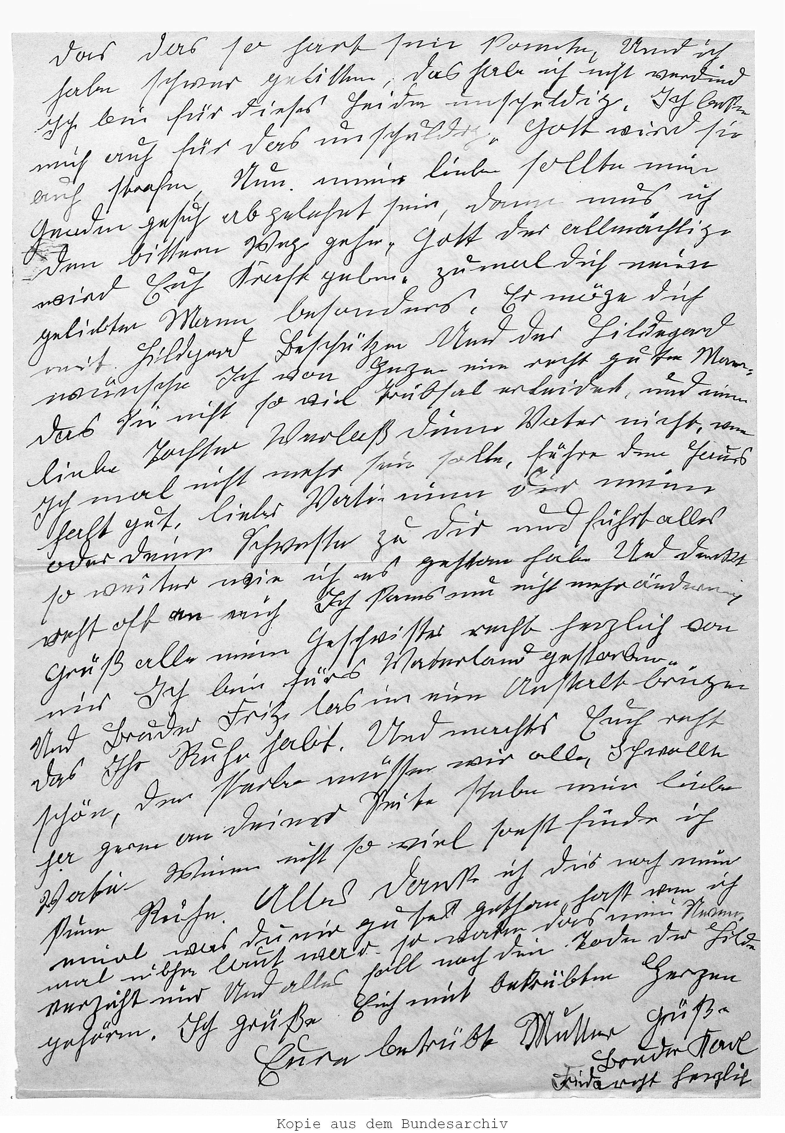 Emma Martins letzter Brief, an ihren Mann, vom 29.11.43 Das Gefängnis lieferte den Brief nicht aus.